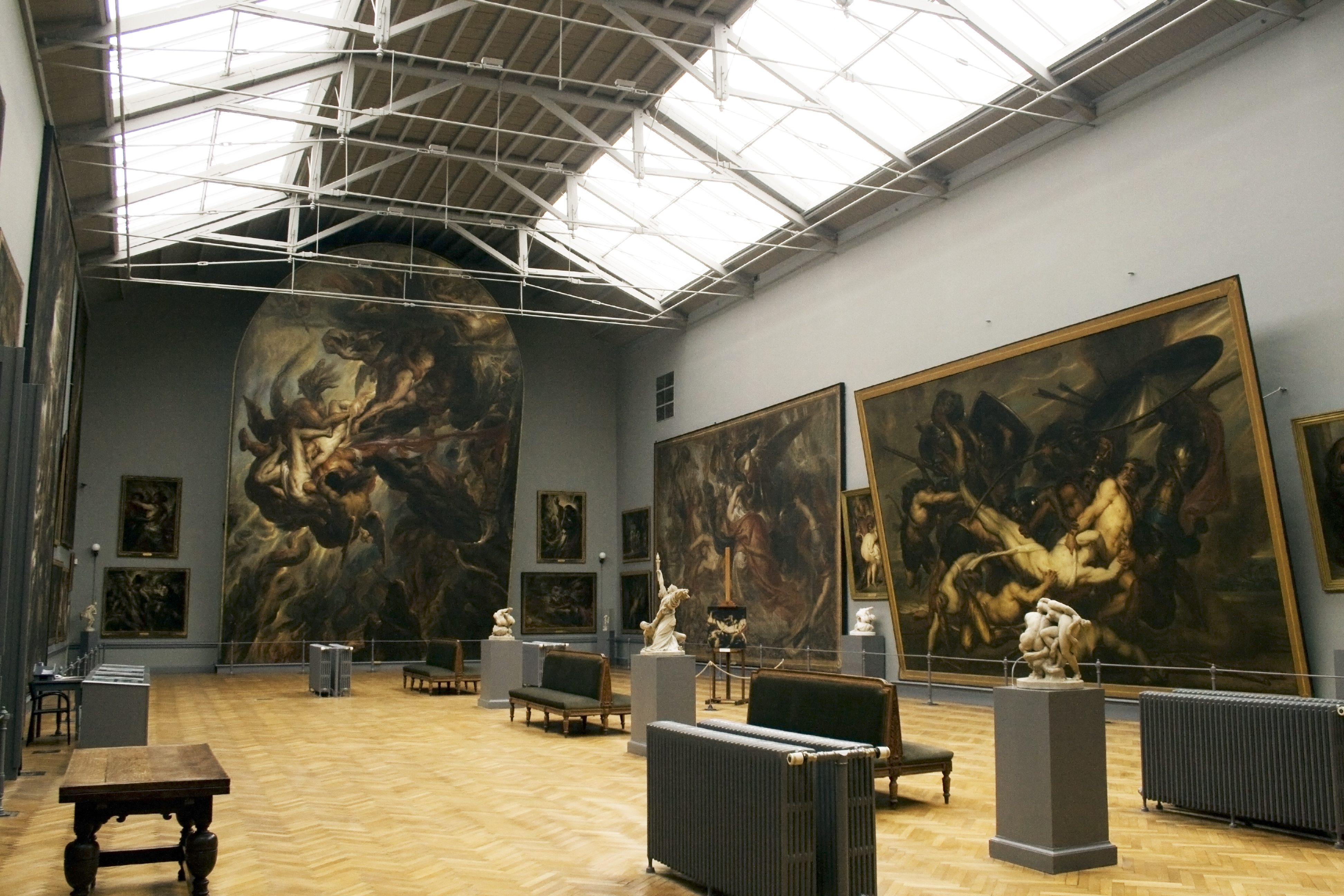 Main Hall of the Wiertz Museum